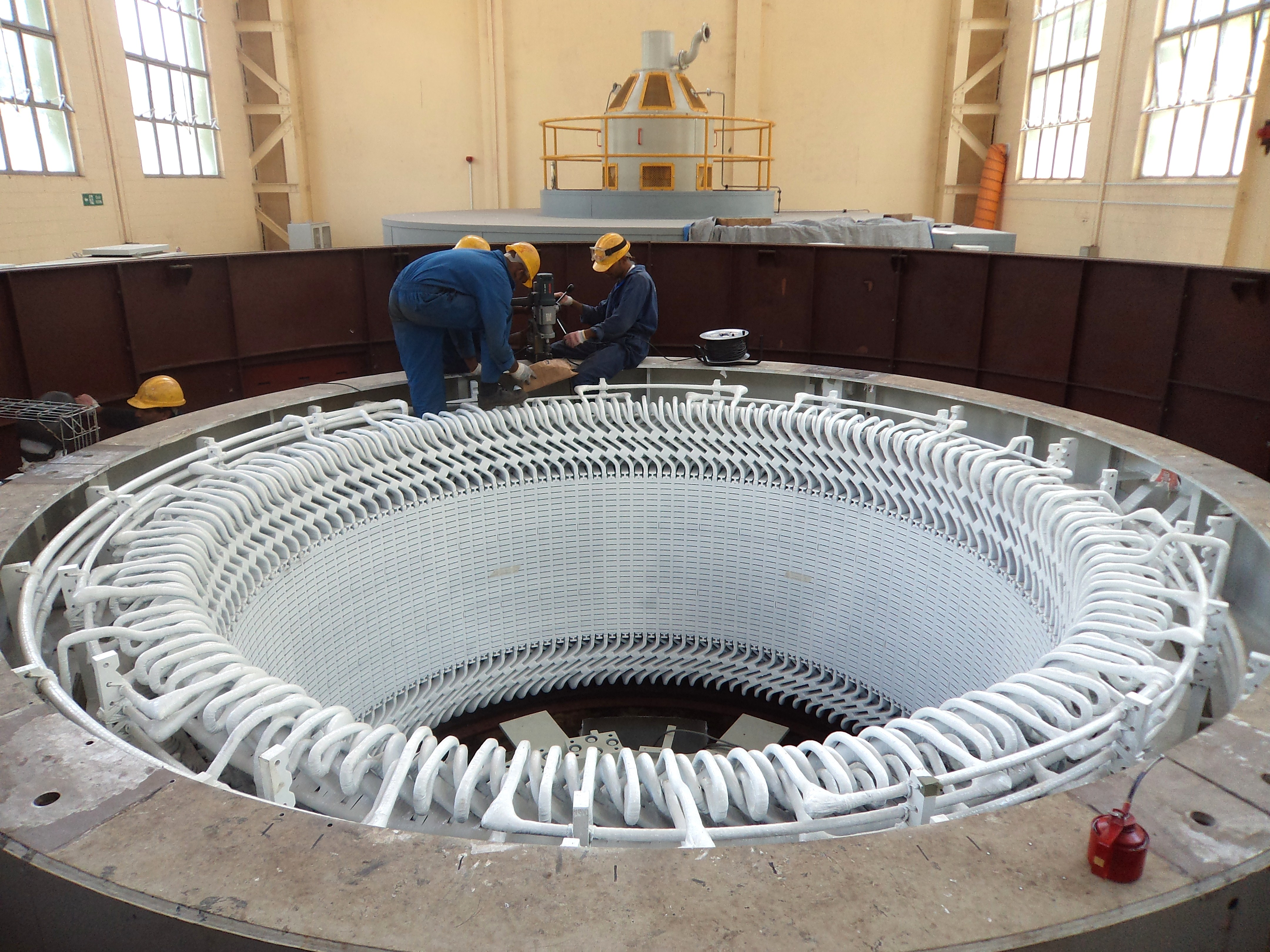 Stator winding of No.2 Generator, Wimalasurendra Power Station, Sri Lanka.